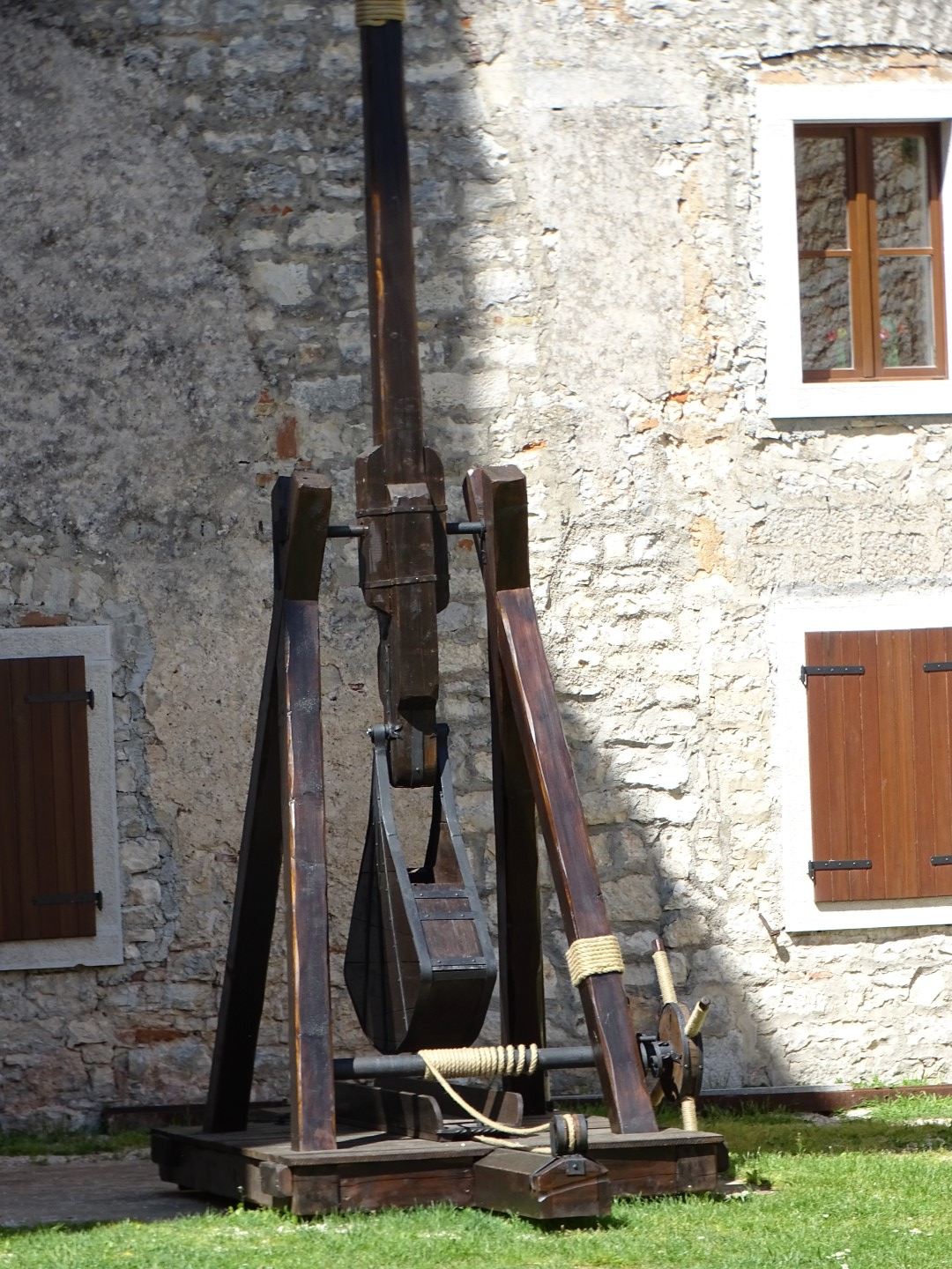 Kaštel Grimani, Svetvinčenat, Croatia